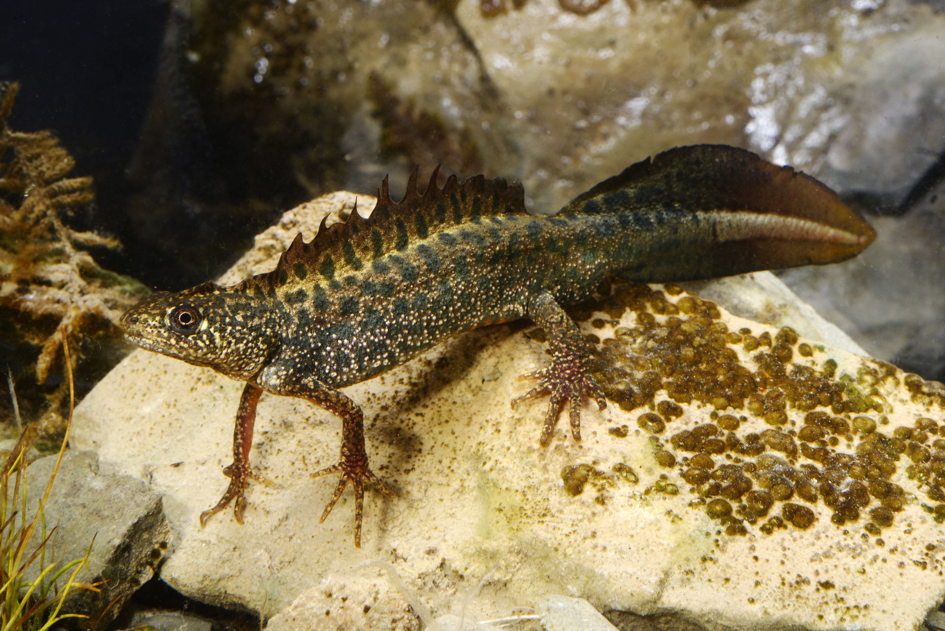 Triturus macedonicus, Pindus mountain range, Greece